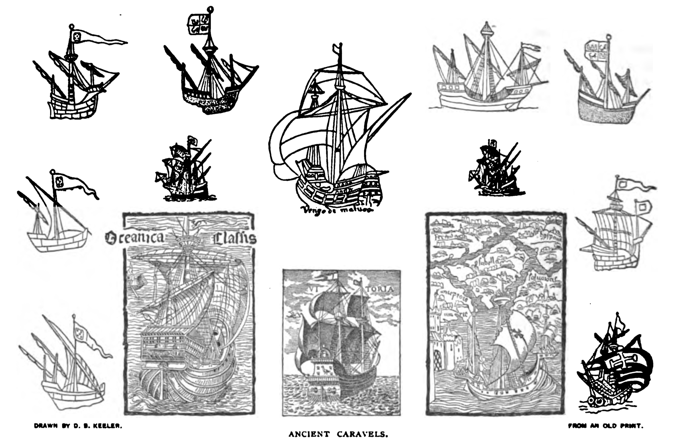 A collage of drawn and sketched types of caravels from an old print